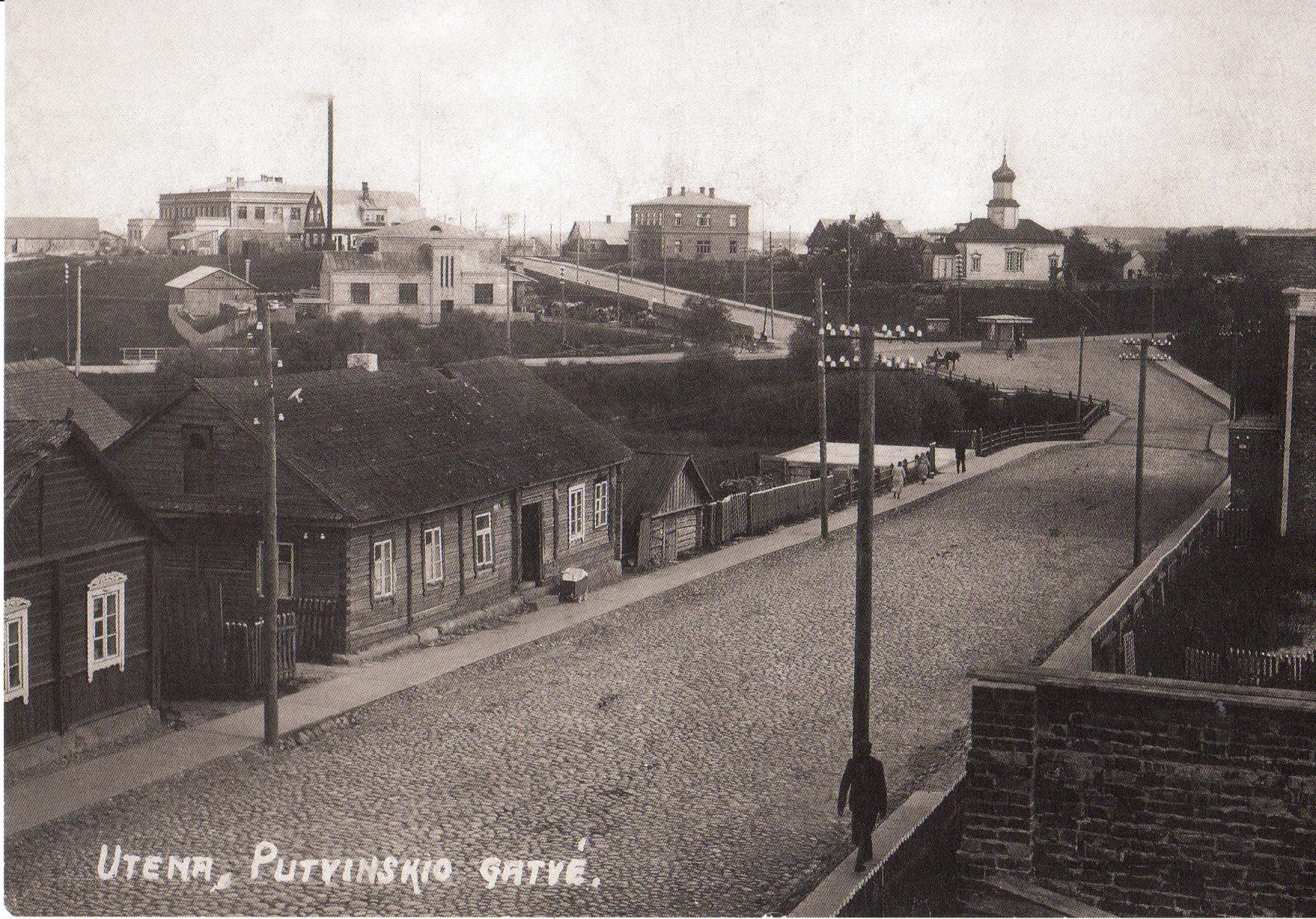 Former Orthodox church of St. Sergey of Radonezh, 1930, Utena, Lithuania